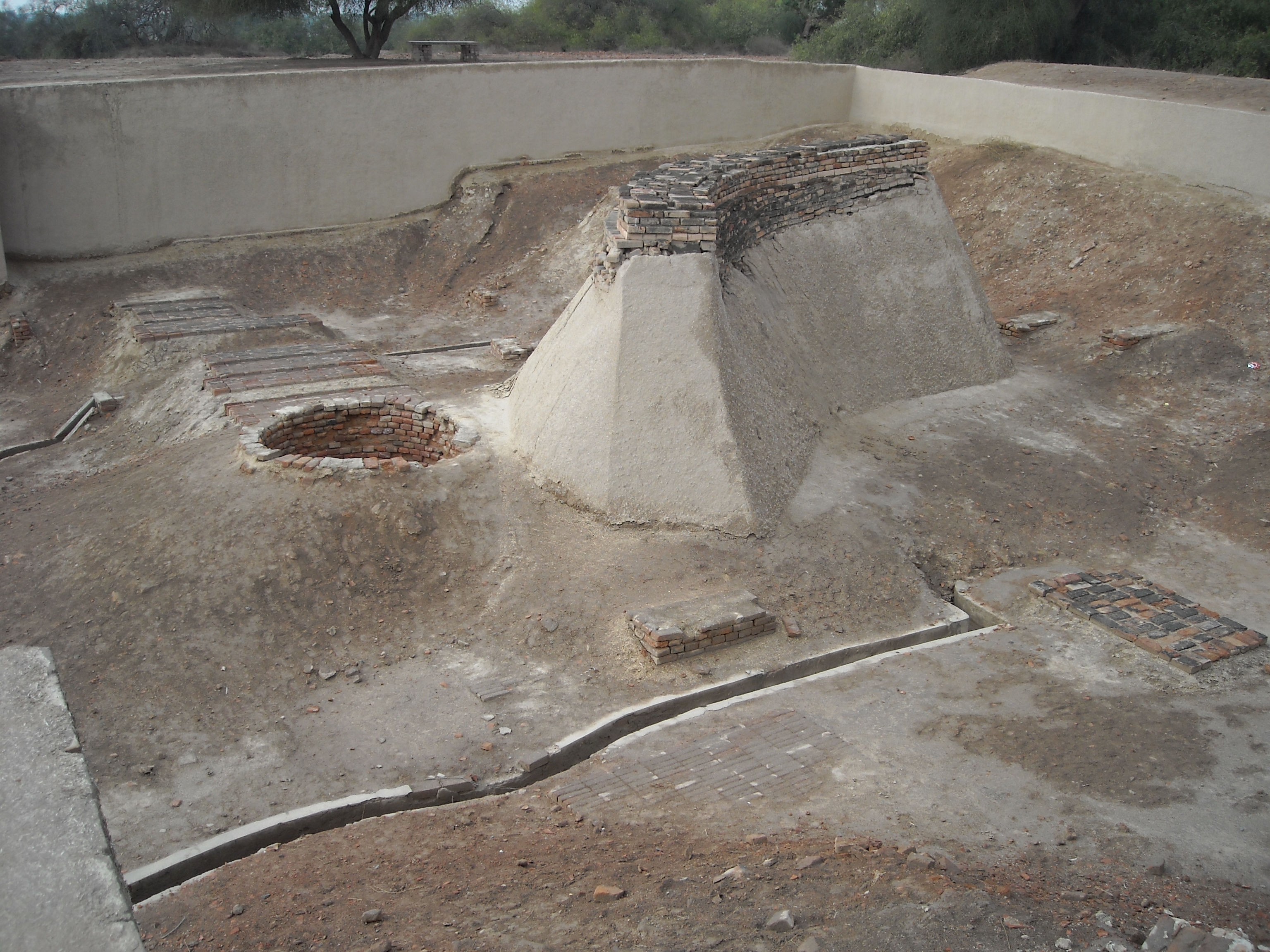 Harappa Pakistan Indus Valley Civilization . A large well and bathing platforms from Harappa occupation around 2200–1900 BC.